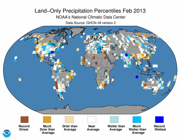 Land-only precipitation percentiles, February, 2013.